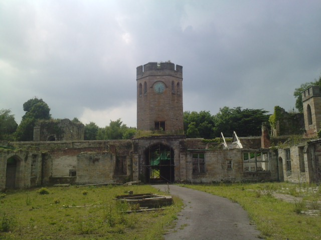 Ravensworth Castle A derelict castle on a private estate.It was used as a location for the ITV Robson Green vehicle 'Wire In The Blood'